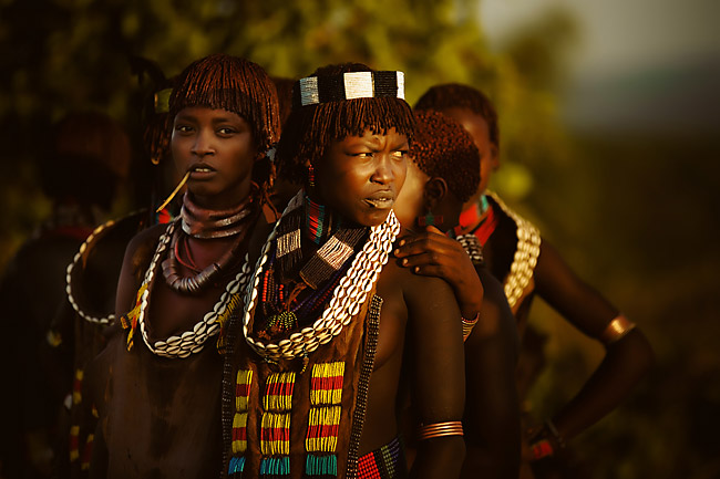 Hamer women, Ethiopia